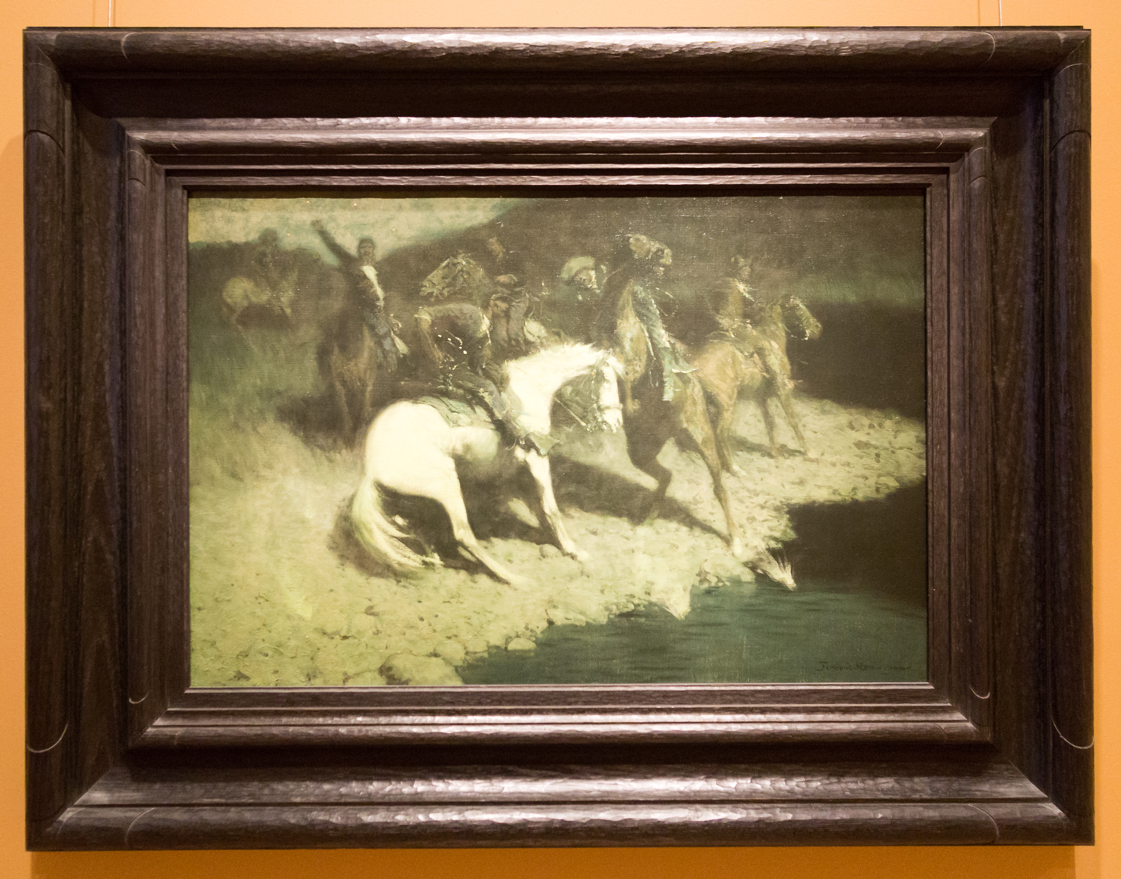 Fired on